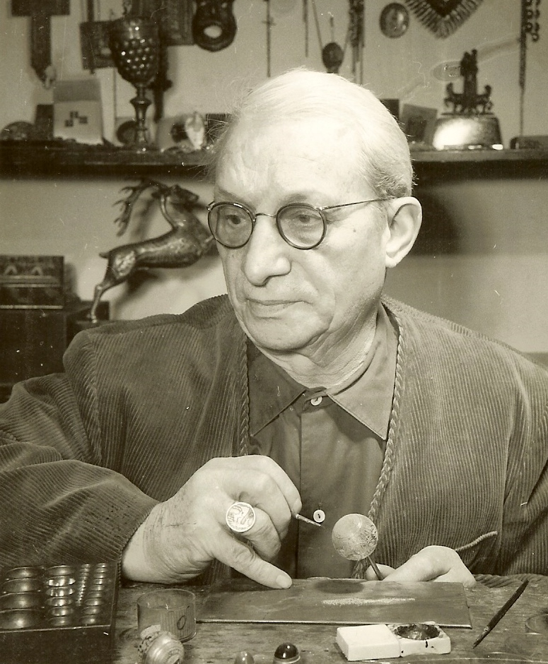 Joh. Michael Wilm portrait - taken on the occasion of the artist's 70th birthday